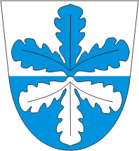 Coats of arms of Orissaare Parish